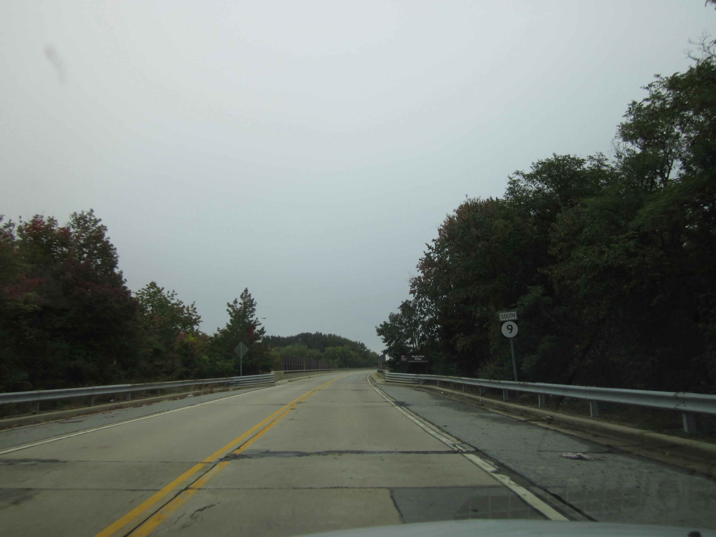 Delaware State Route 9 southbound heading onto the Reedy Point Bridge over the Chesapeake and Delaware Canal in Delaware City